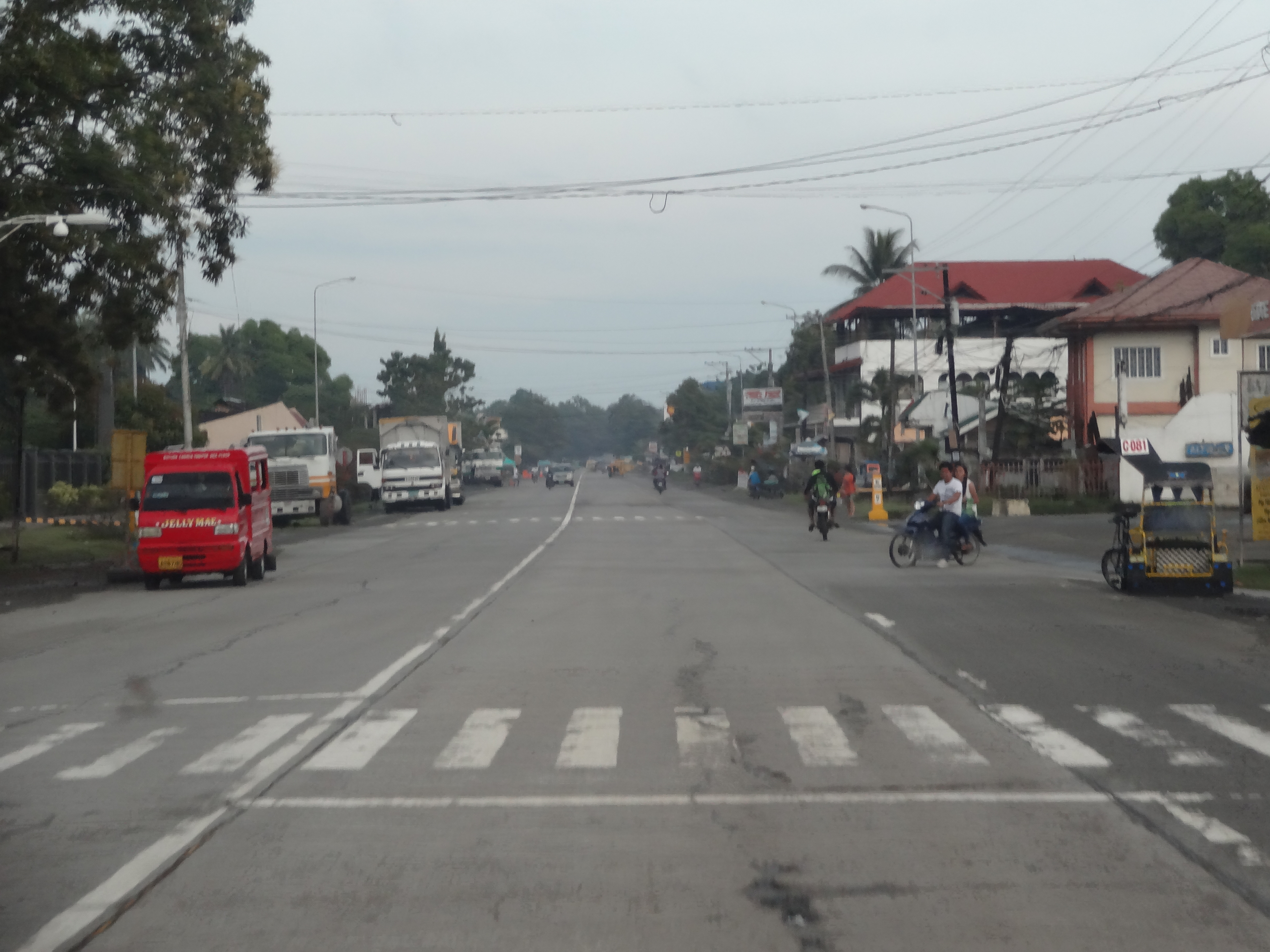 This is my own work. The Brgy. Poblacion in Buenavista, Agusan del Norte has 10 Poblacion districts.